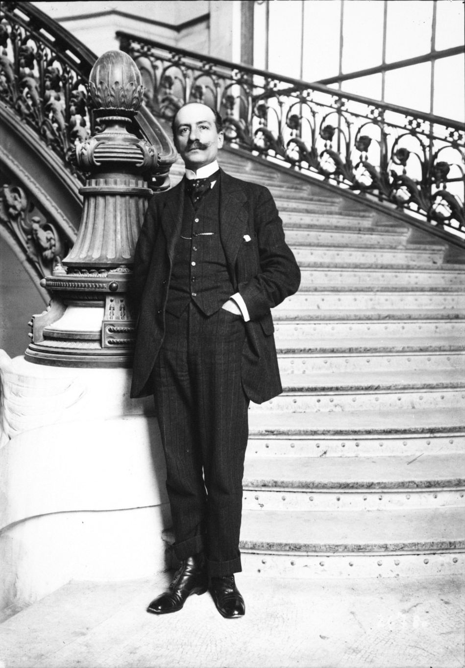 Mr. Henri Cézanne, secrétaire général du Salon de l'Automobile club - (photographie de presse) - (Agence Rol)